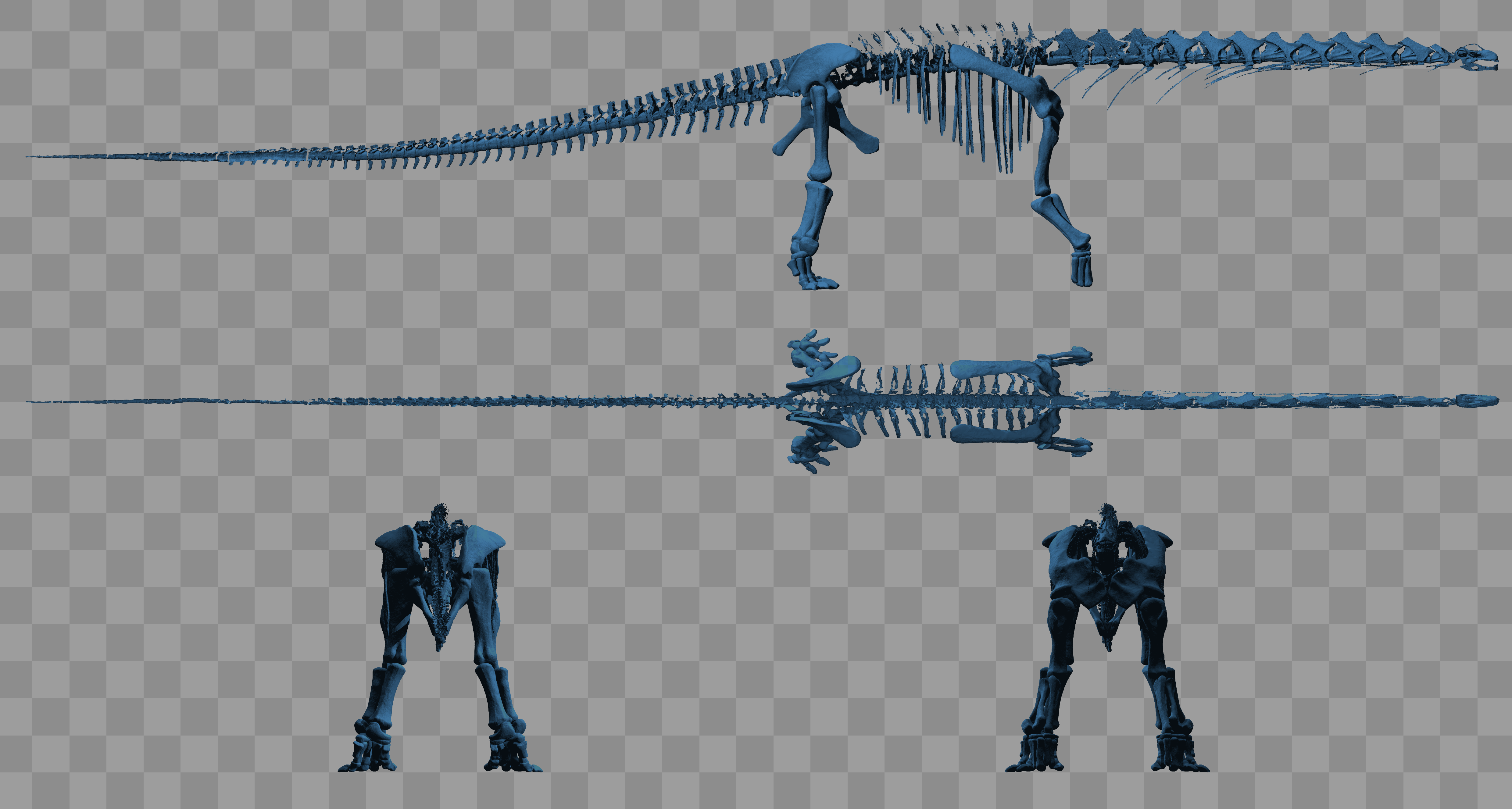 Skeletal reconstruction of Argentinosaurus as found by the study by Sellers et al.